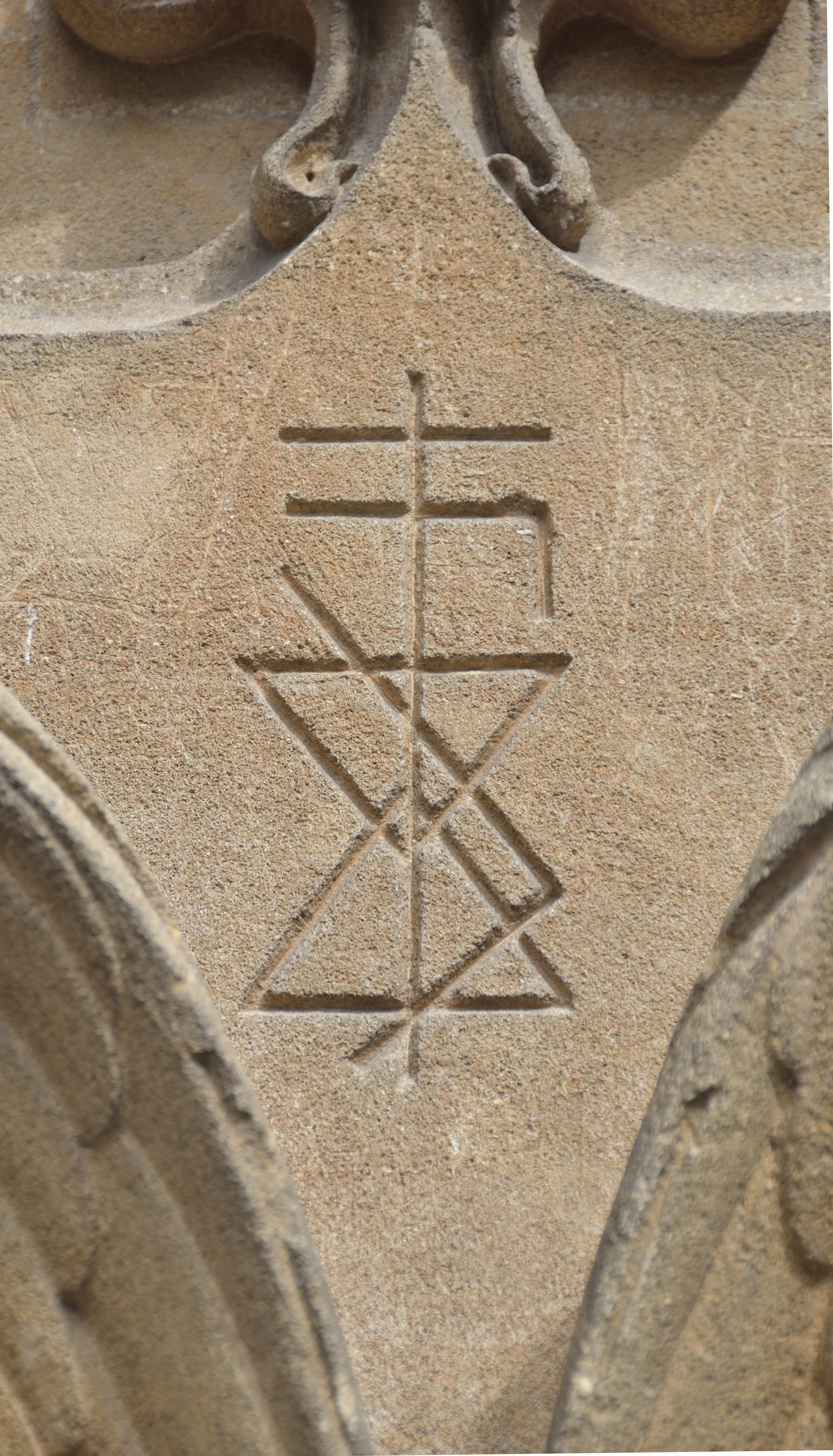 Hubertus chapel in the Lednice–Valtice Cultural Landscape in the Czech Republic.